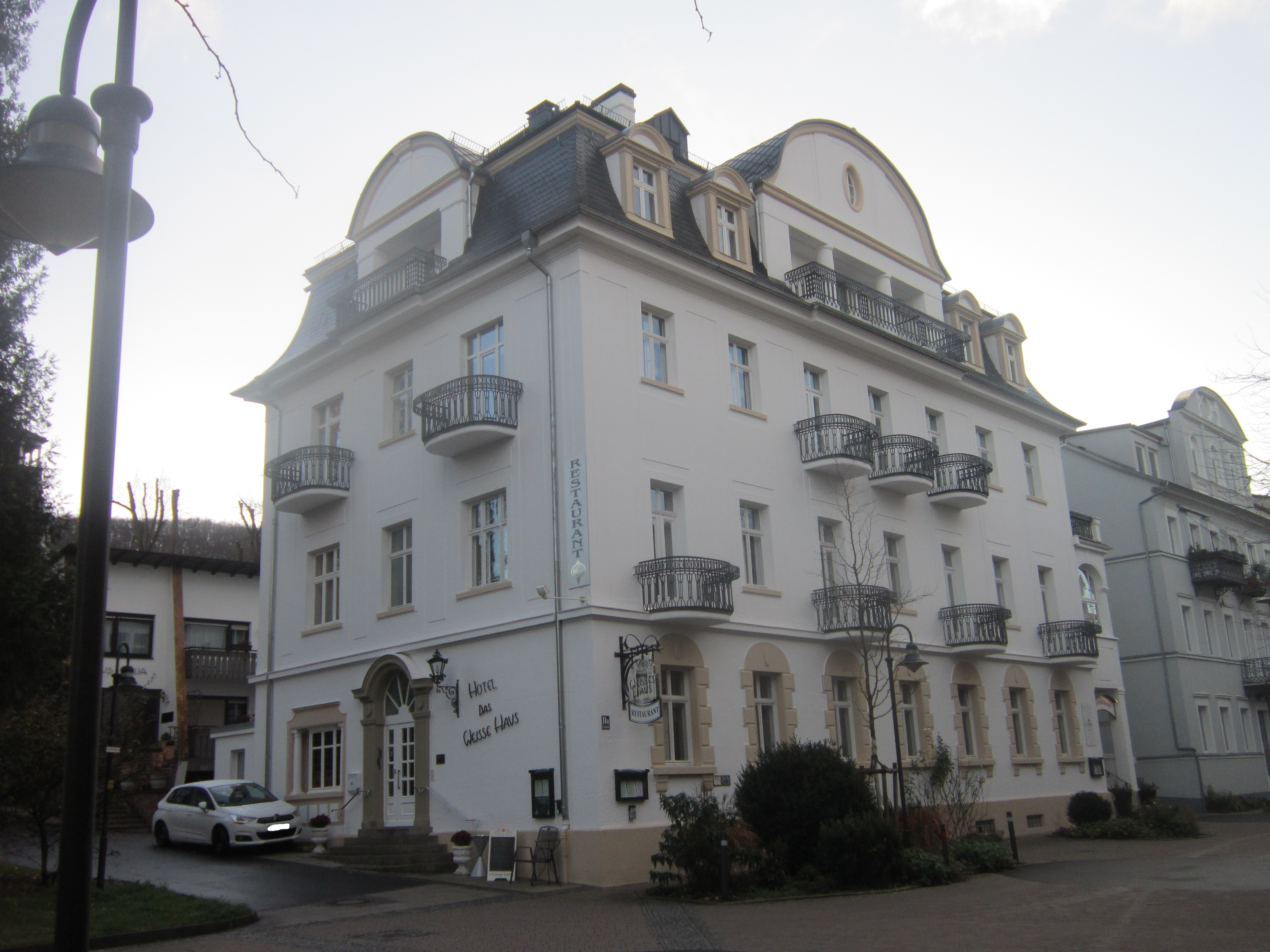 Building in the German spa town of Bad Kissingen in Lower Franconia (Bavaria) (Address: Kurhausstraße 11a).